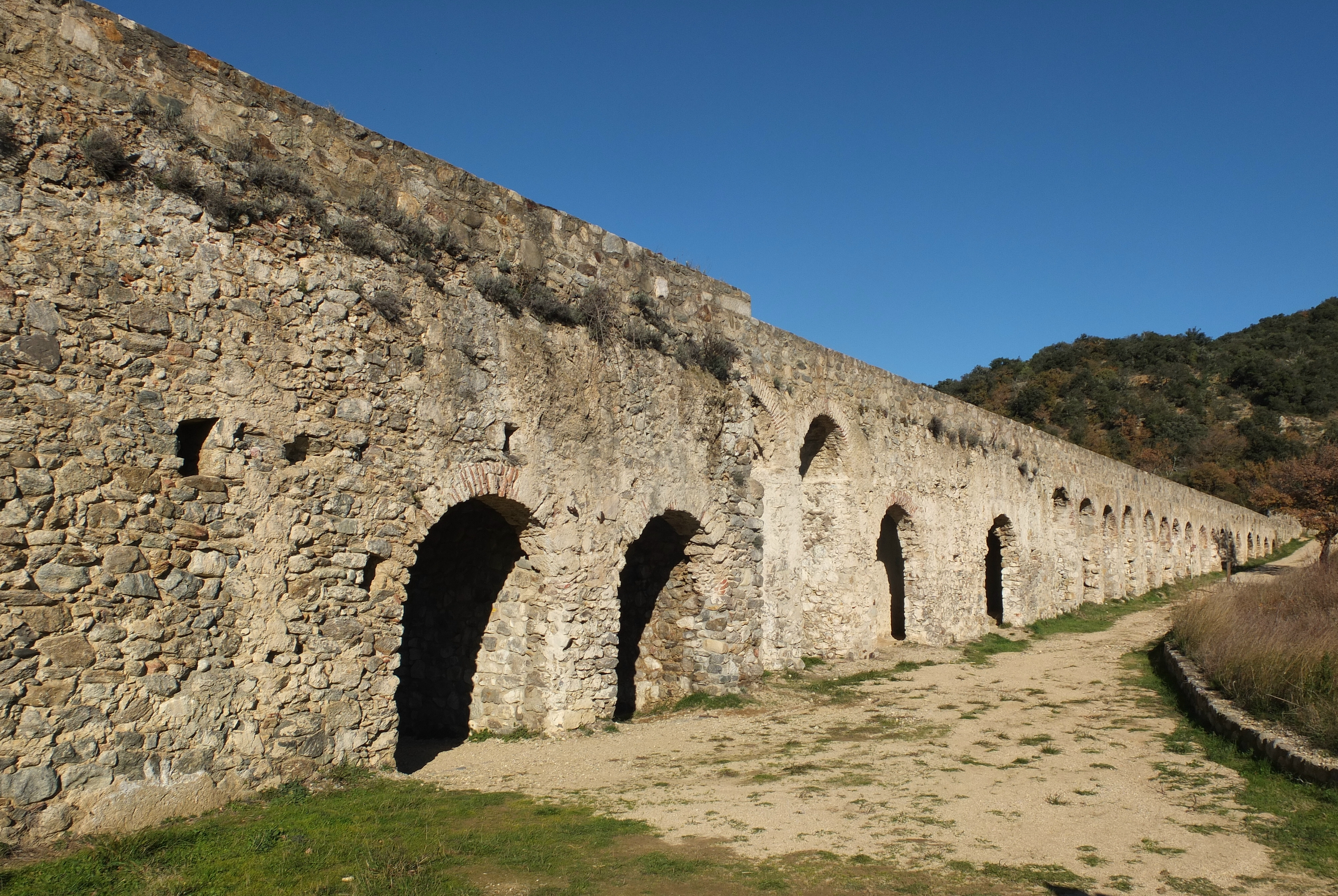 Roman Aqueduct of Ansignan, Pyrénées-Orientales, France (view South).